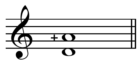 Just perfect fifth on D = A+ (Ben Johnston's notation). 3:2 = 701.96 cents.